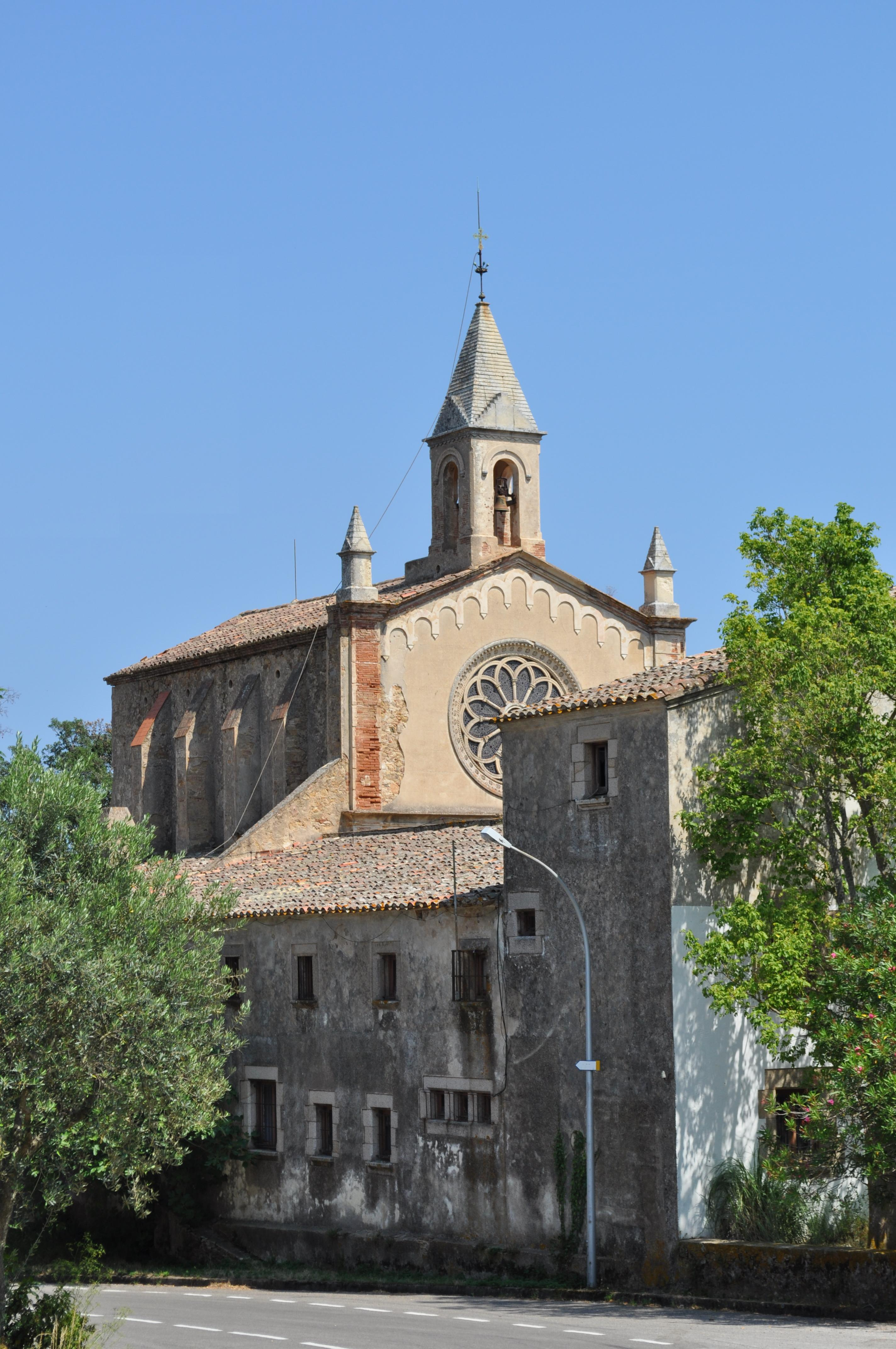 Eremitage Sant Grau near Tossa de Mar